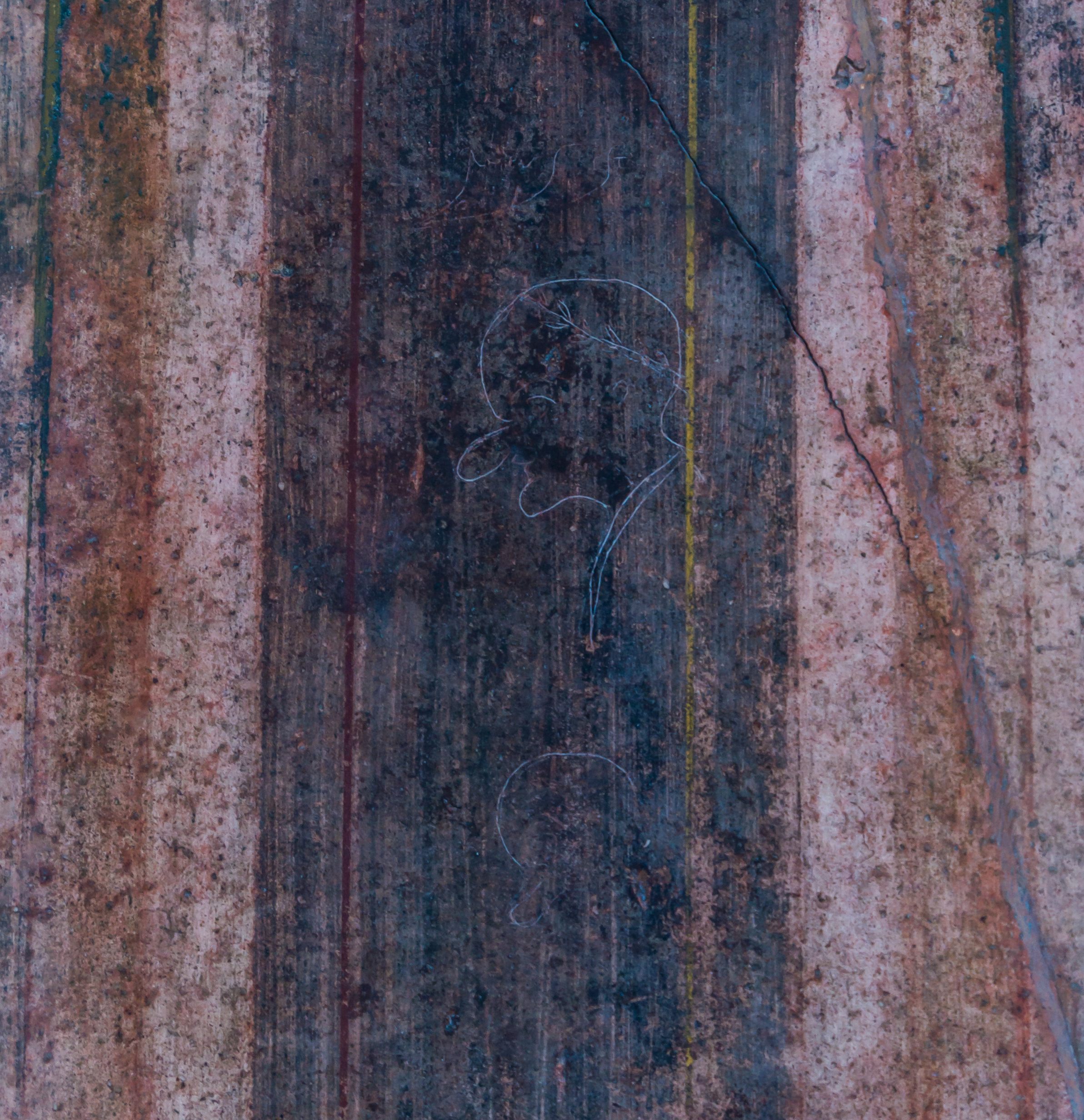 One of the oldest caricature in the western world ever, Rufus est (this is Rufus), ancient roman engraving in Villa dei Misteri, Pompeii, Italy.